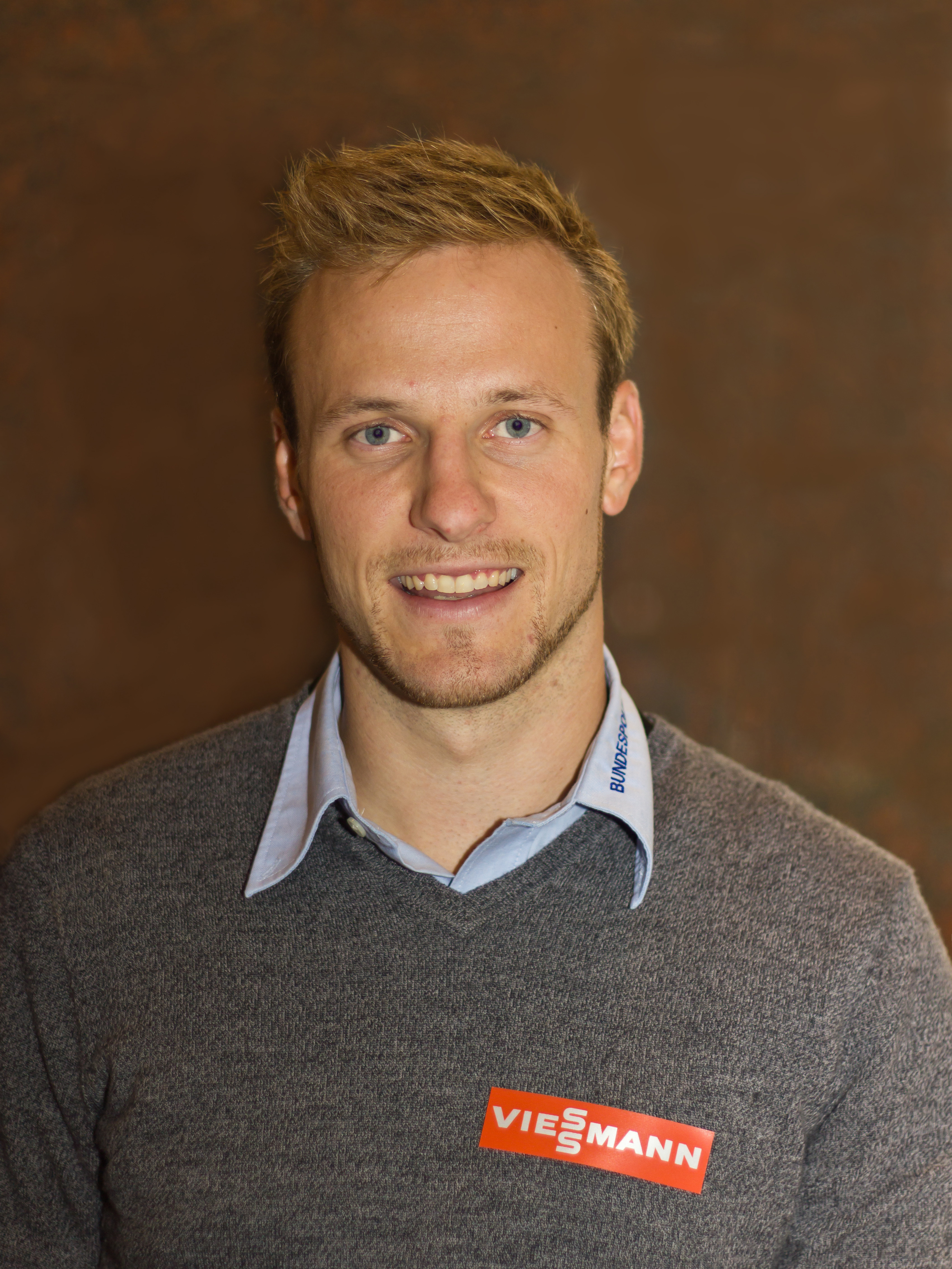 Tobias Arlt is a luger from Germany, photo taken in Berlin